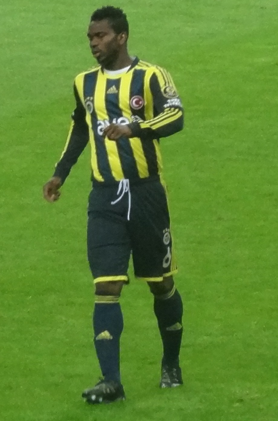 Yobo playing against GS